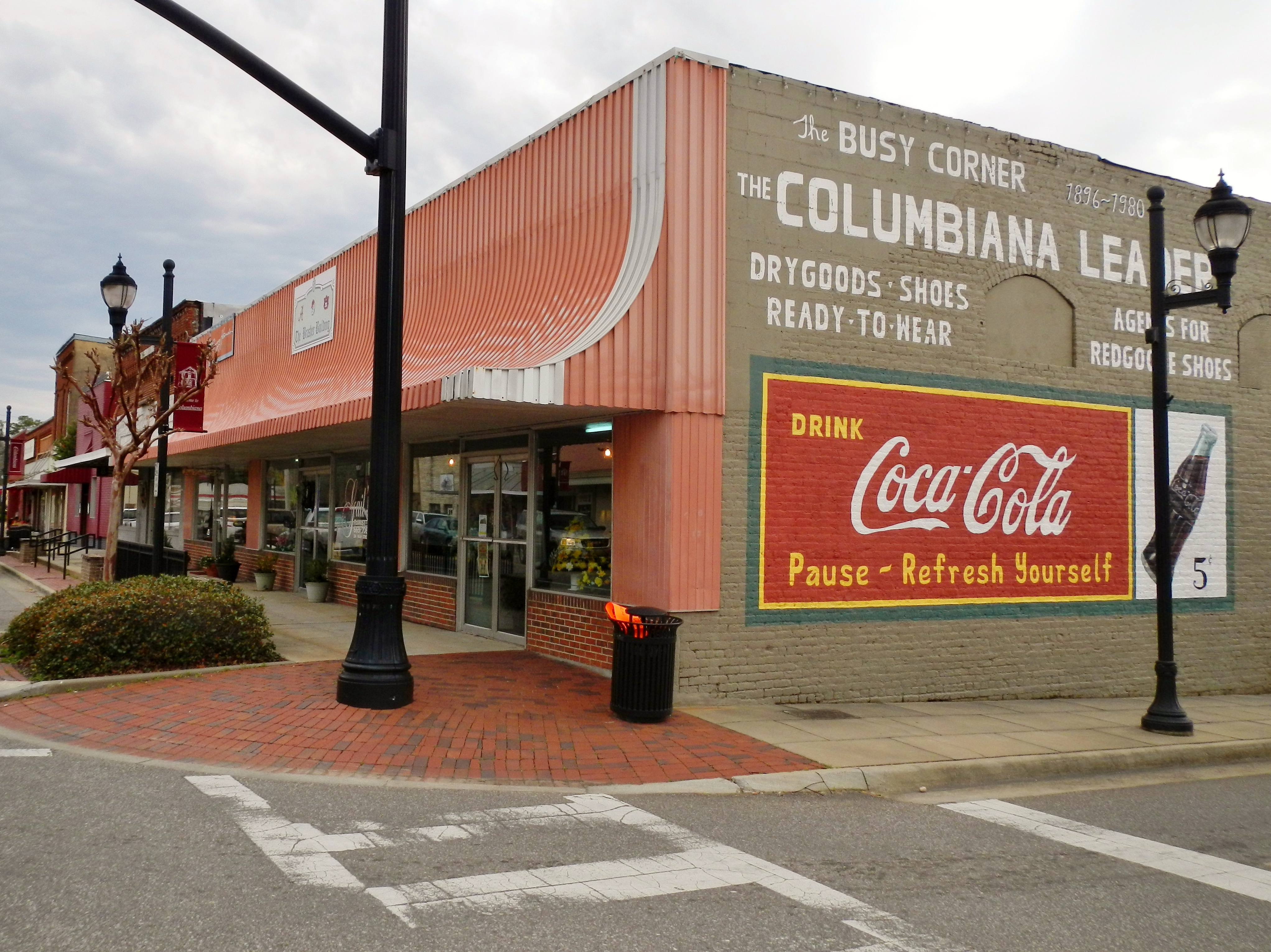 Photo of downtown Columbiana, Alabama.